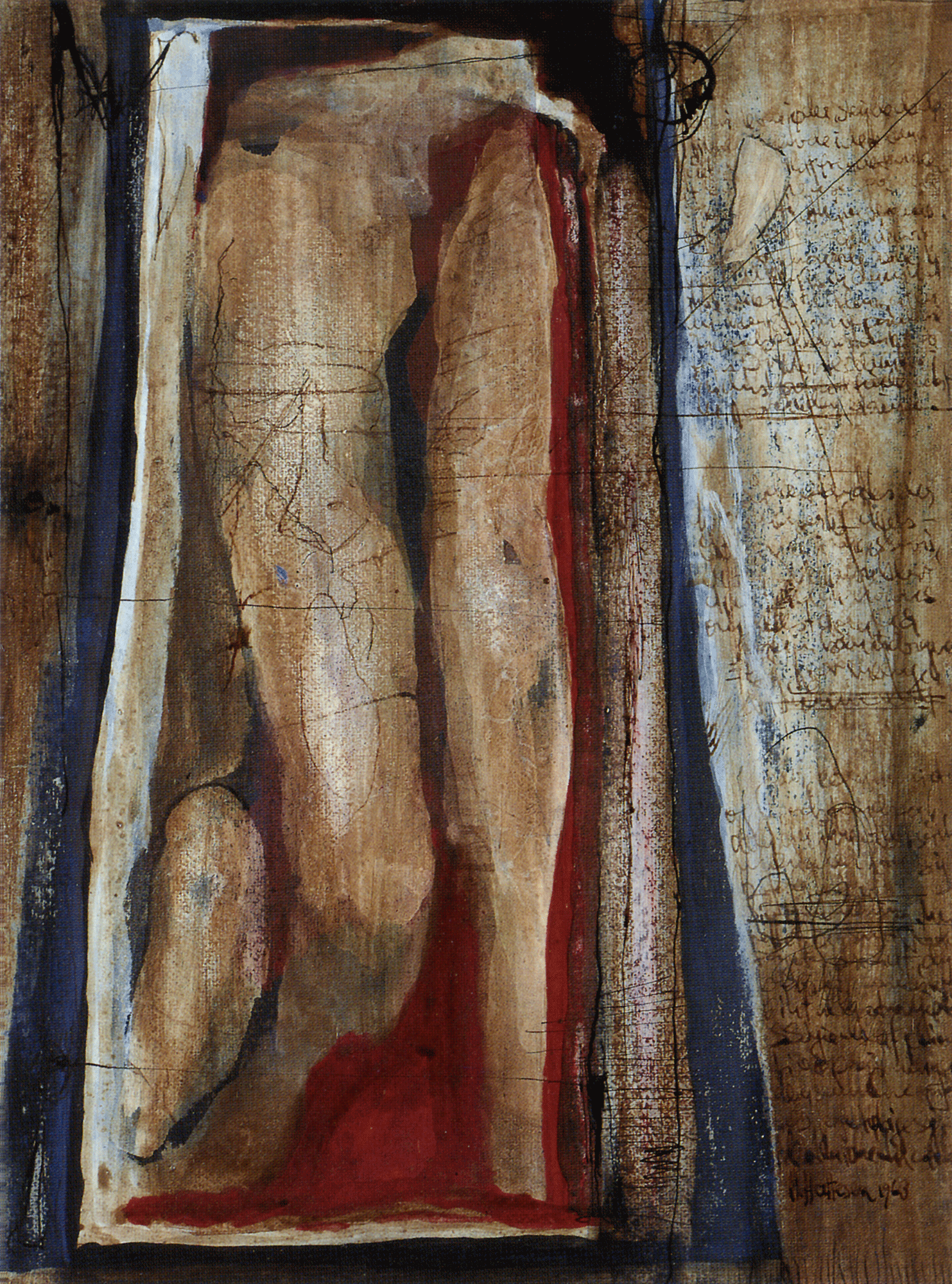 Funeral for three. Painting by the German-Danish artist Holger Hattesen (Flensburg 1937-1993)